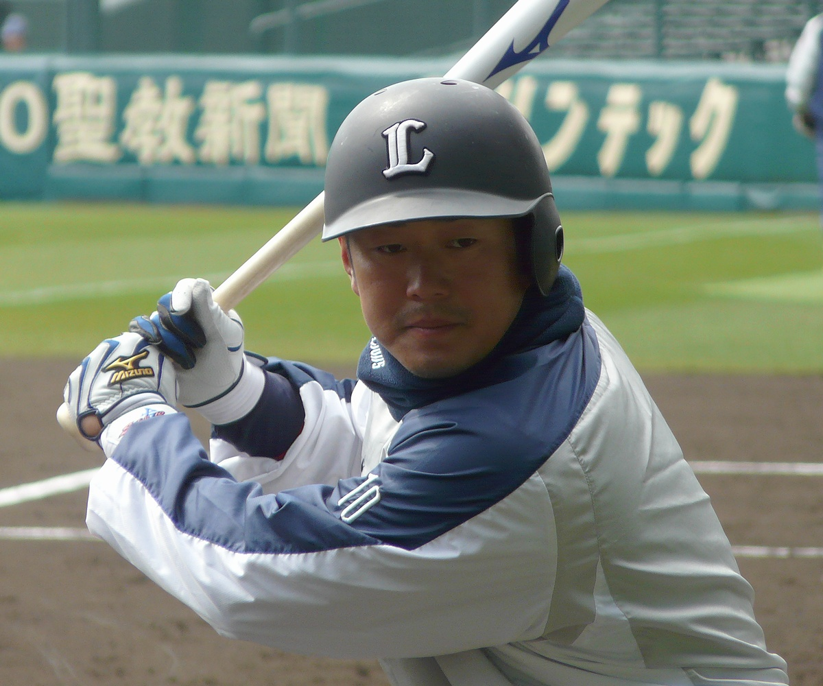 NF-SL-Tomoaki-Sato20110310